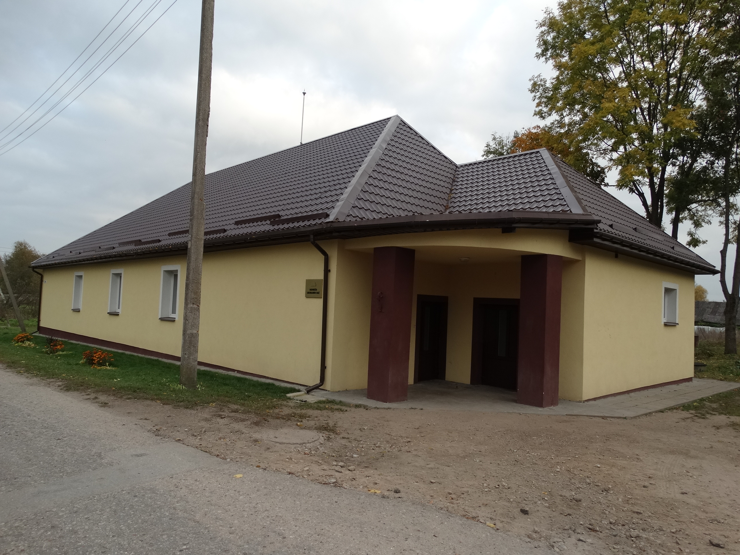 Centre of culture, Būdvietis, Lazdijai district, Lithuania